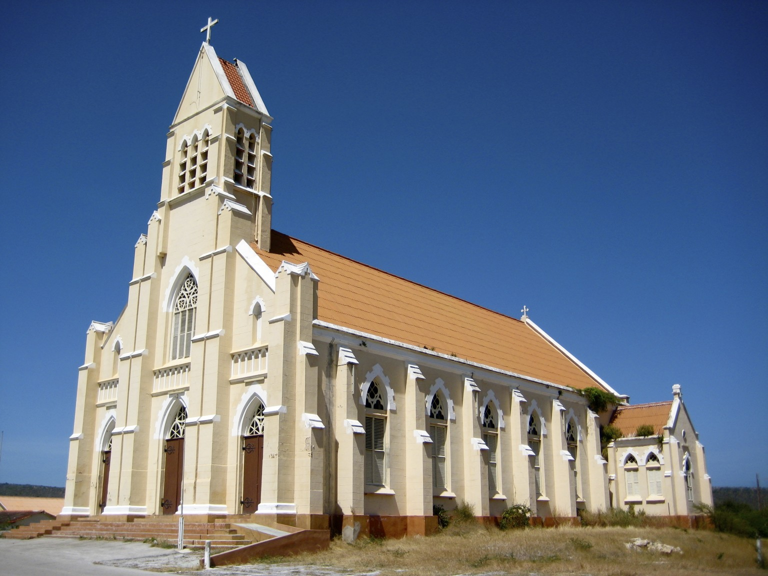 Photograph of the St. Willibrordus Church in Curaçao